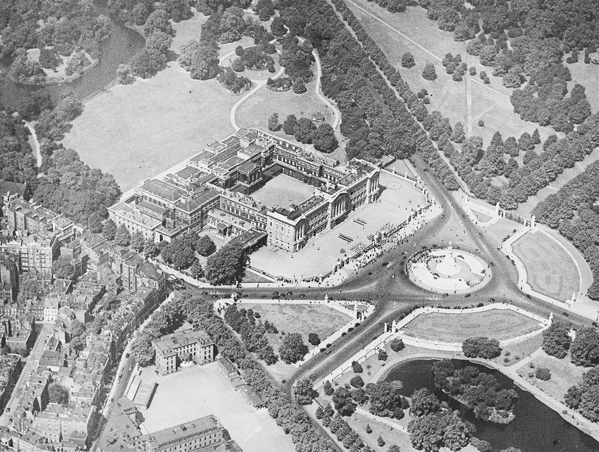 Aerial view of Buckingham Palace and grounds taken by Royal Air Force personnel. Crown copyright expired in 1984.